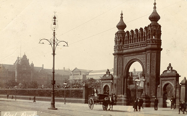 Victoria Arch at the entrance to Peel Park circa 1905